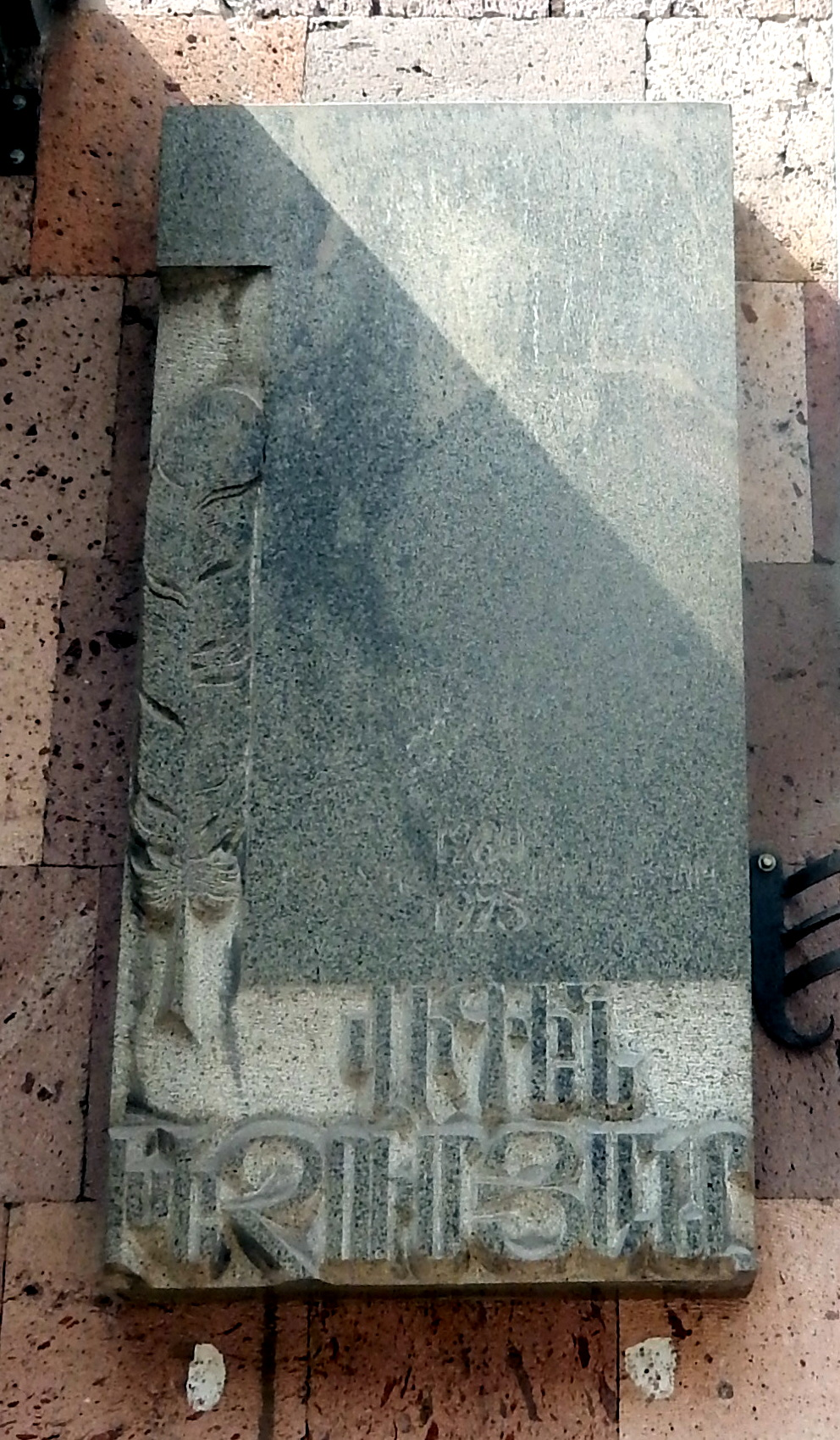 Vigen Khechumyan's plaque in Yerevan